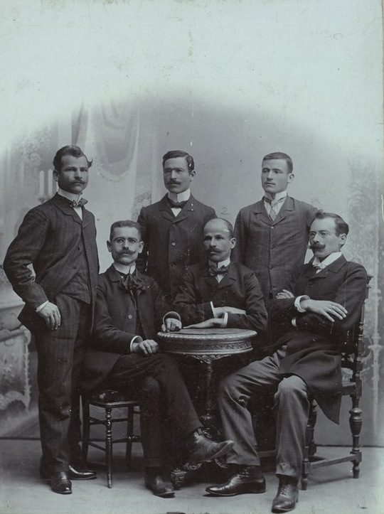 Georgi Badzharov